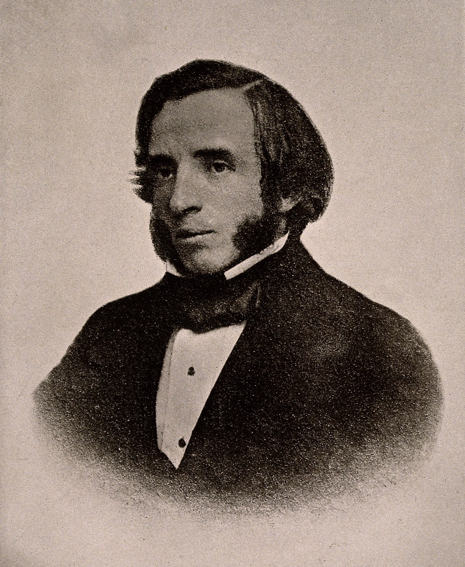 V0006377 Samuel Pickworth Woodward. Reproduction of lithograph. Credit: Wellcome Library, London. Wellcome Images Samuel Pickworth Woodward. Reproduction of lithograph. Published: - Copyrighted work available under Creative Commons Attribution only licence CC BY 4.0